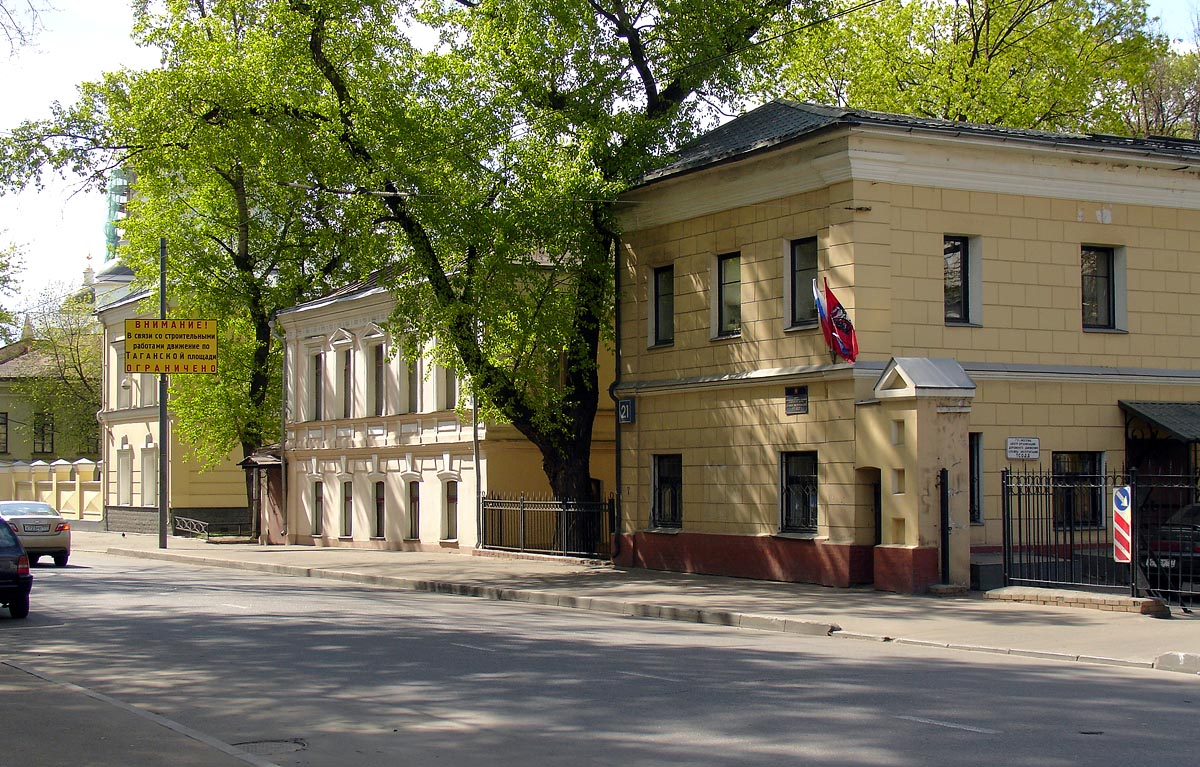 Bolshaya Kommunisticheskaya Street, Moscow